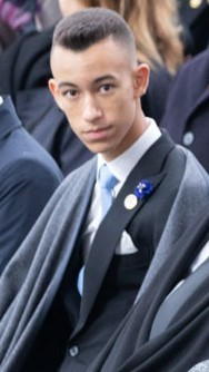 Moulay Hassan in 2018